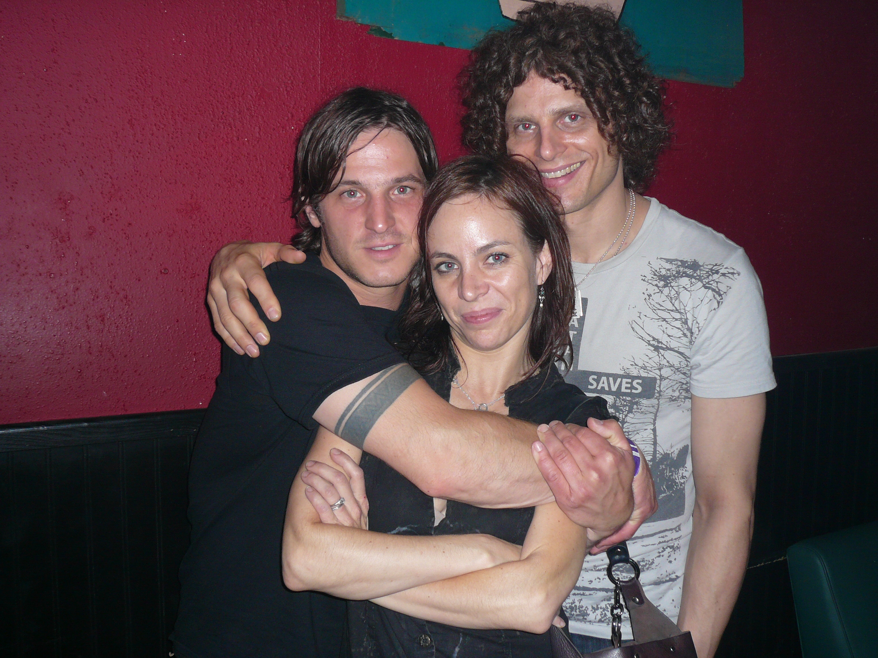 Burning Brides ~ Warehouse Live ~ Houston Texas 7-5-07